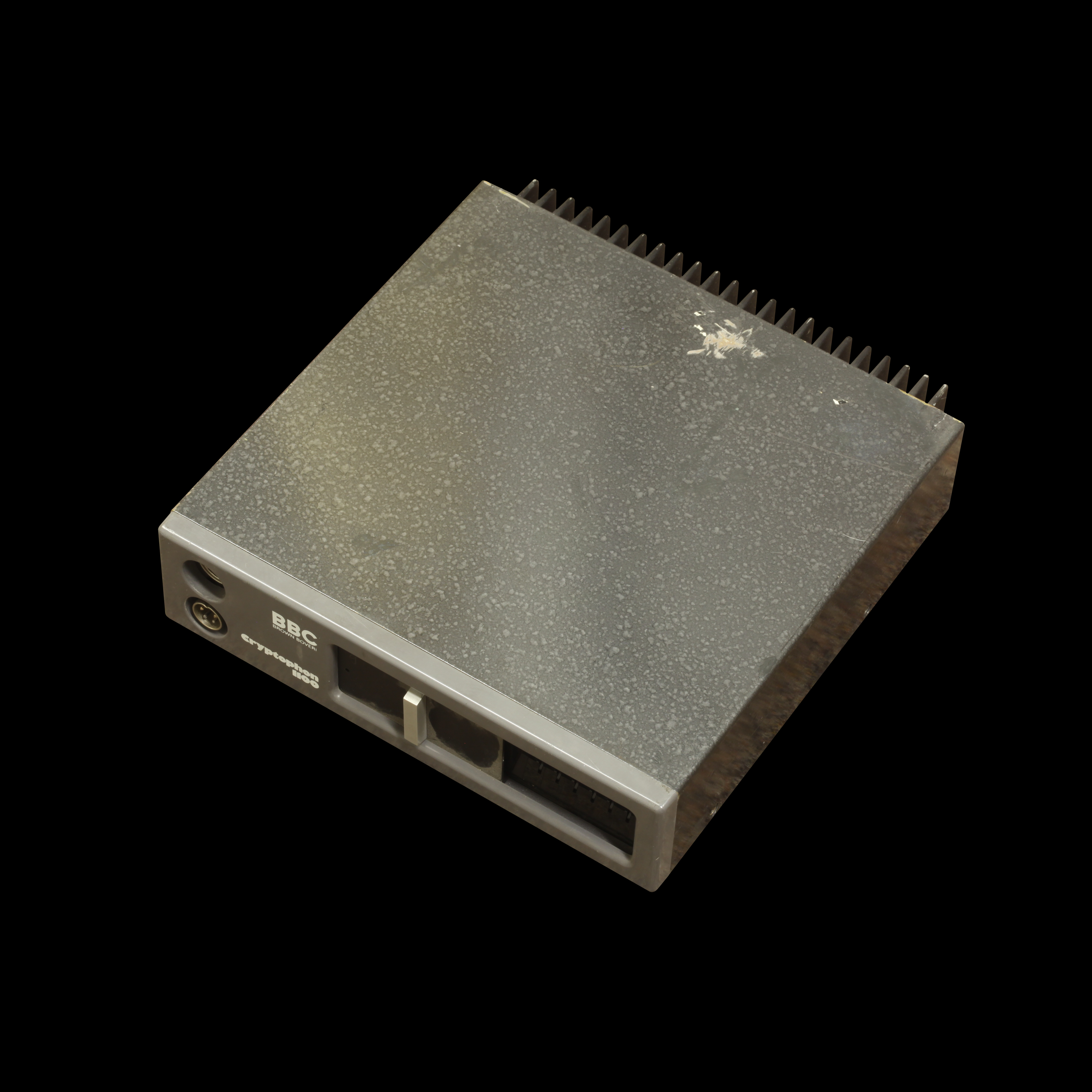 Cryptohpon 1100. Cryptography collection of the Swiss Army headquarters The making of this document was supported by Wikimedia CH.(Submit your project!) For all the files concerned, please see the category Supported by Wikimedia CH.